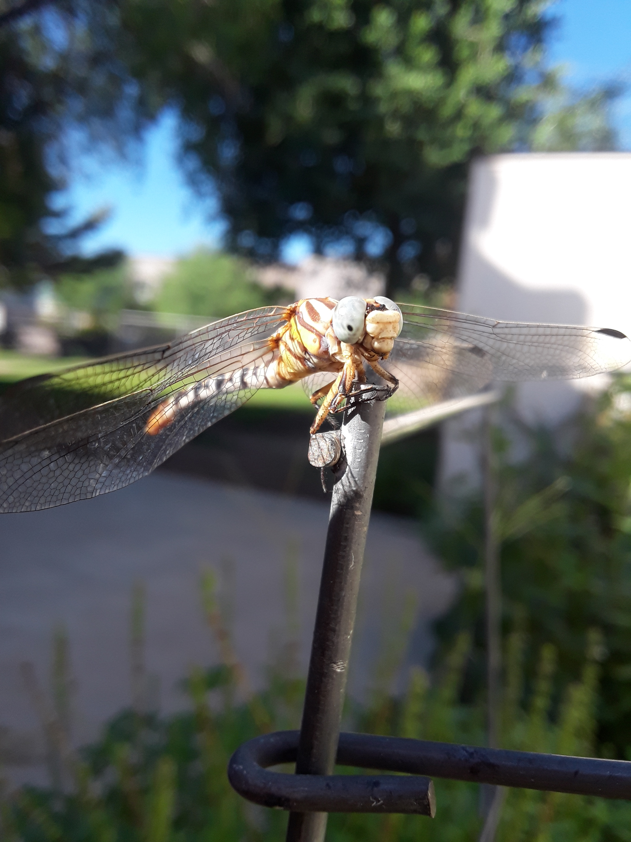 Phoenix, AZ